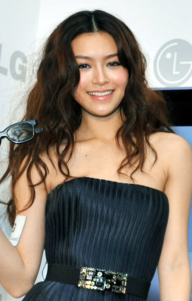 Janice Man as LG cinema 3D TV model at Harbour Grand Hotel in hong kong, on March 30, 2011